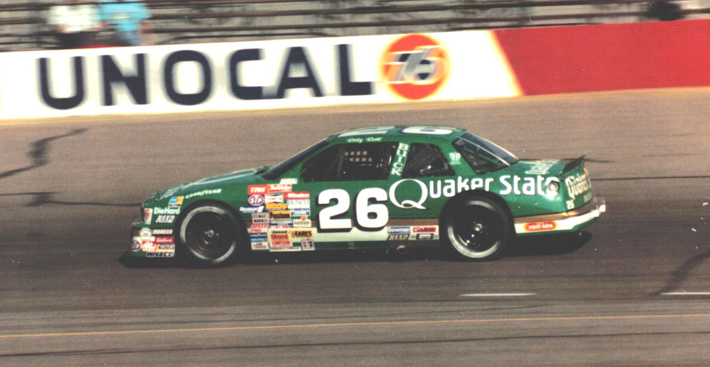 NASCAR driver Ricky Rudd in his #26 racecar at Phoenix in 1989